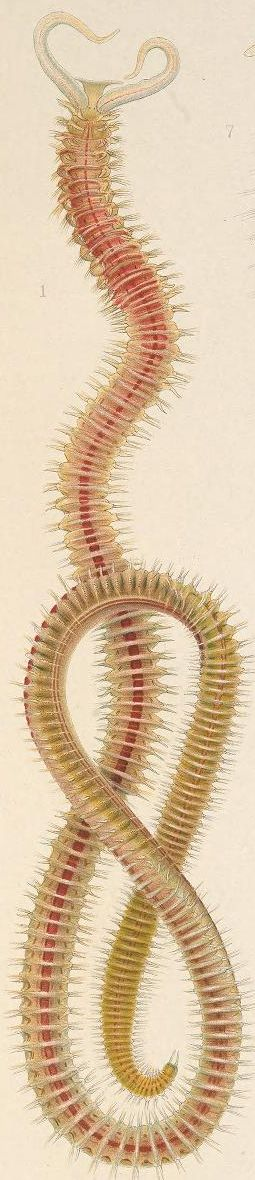 Spiophanes bombyx (Claparède, 1870), A monograph of the British marine annelids, 1915, XCIII